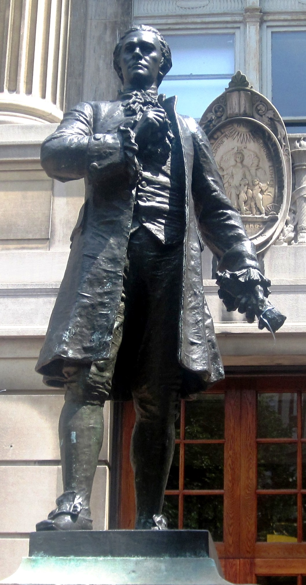 Statue of Alexander Hamilton by William Ordway Patridge which stands outside of Columbia University's Hamilton Hall